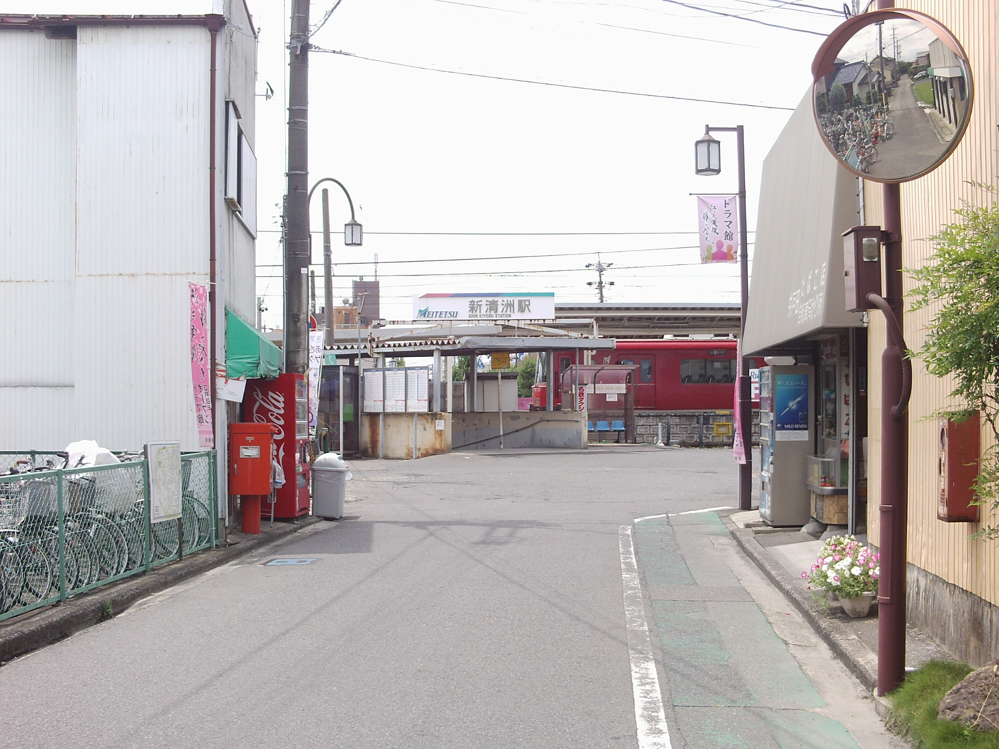 Aichi prefectural road No.142 in Kiyosu, Kiyosu, Aichi. Starting point, Shinkiyosu Station.